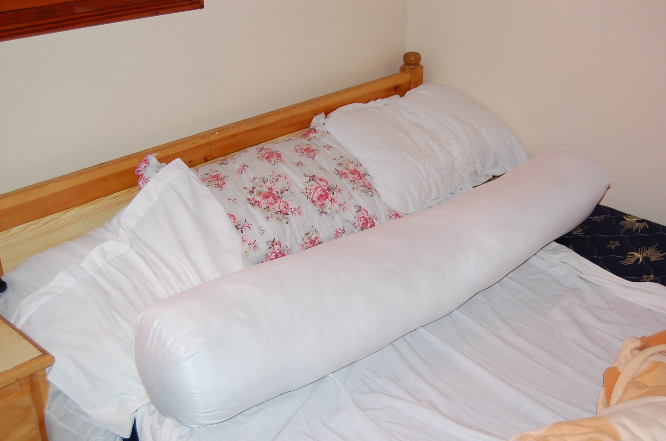 Walon: tchefsî